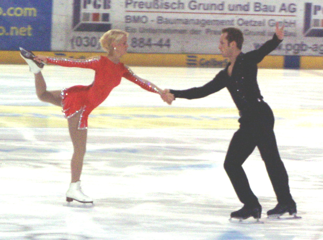 Rebecca Handke and Daniel Wende at their free program at the German championships 2006 in Berlin.